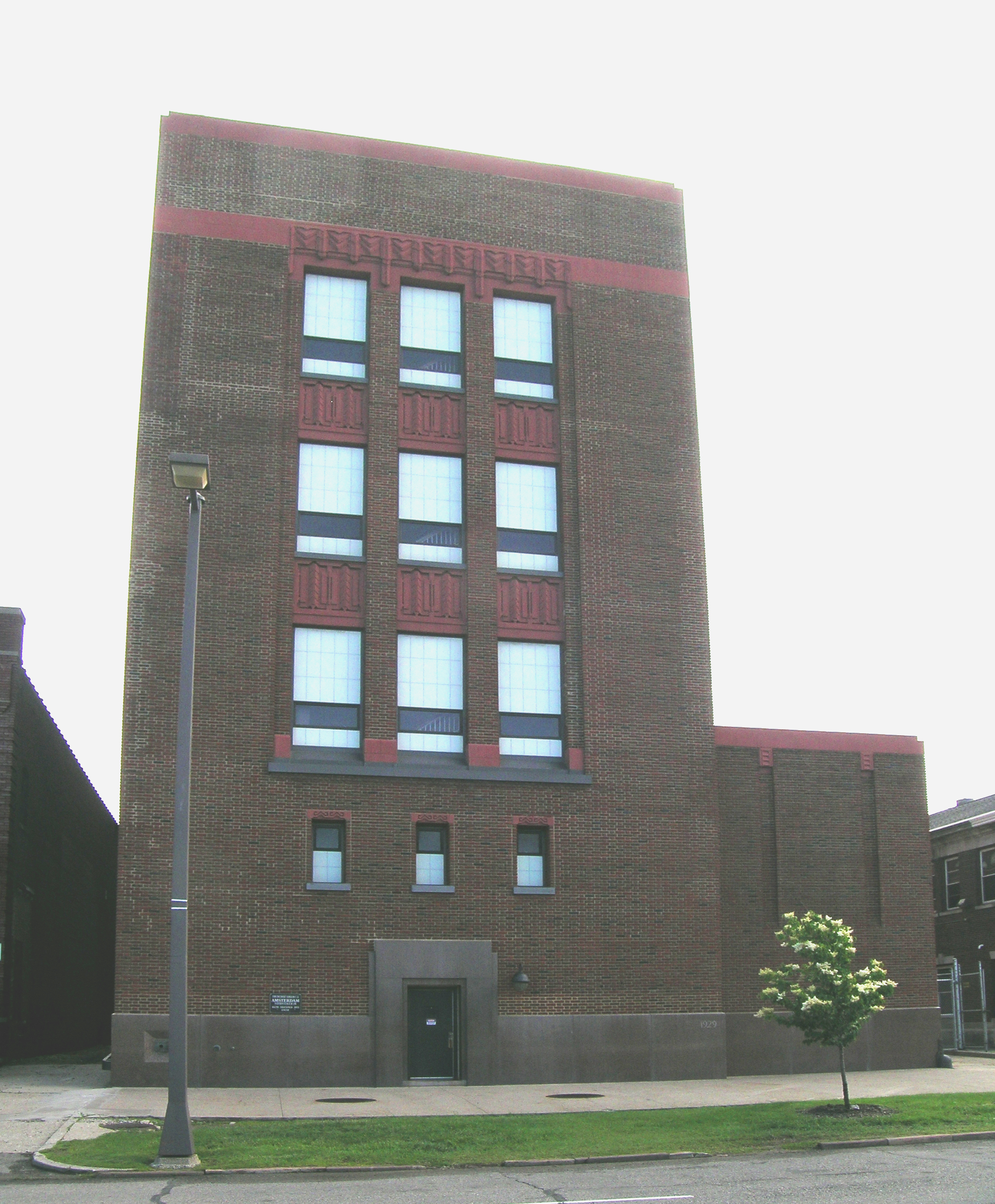 The Detroit Edison Amsterdam Substation at 6126 2nd Avenue in Detroit, Michigan, United States, lies within the New Amsterdam Historic District.